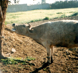 Rabies in a cow: bellowing Walon: Må d' araedje a ene vatche : boerlaedje